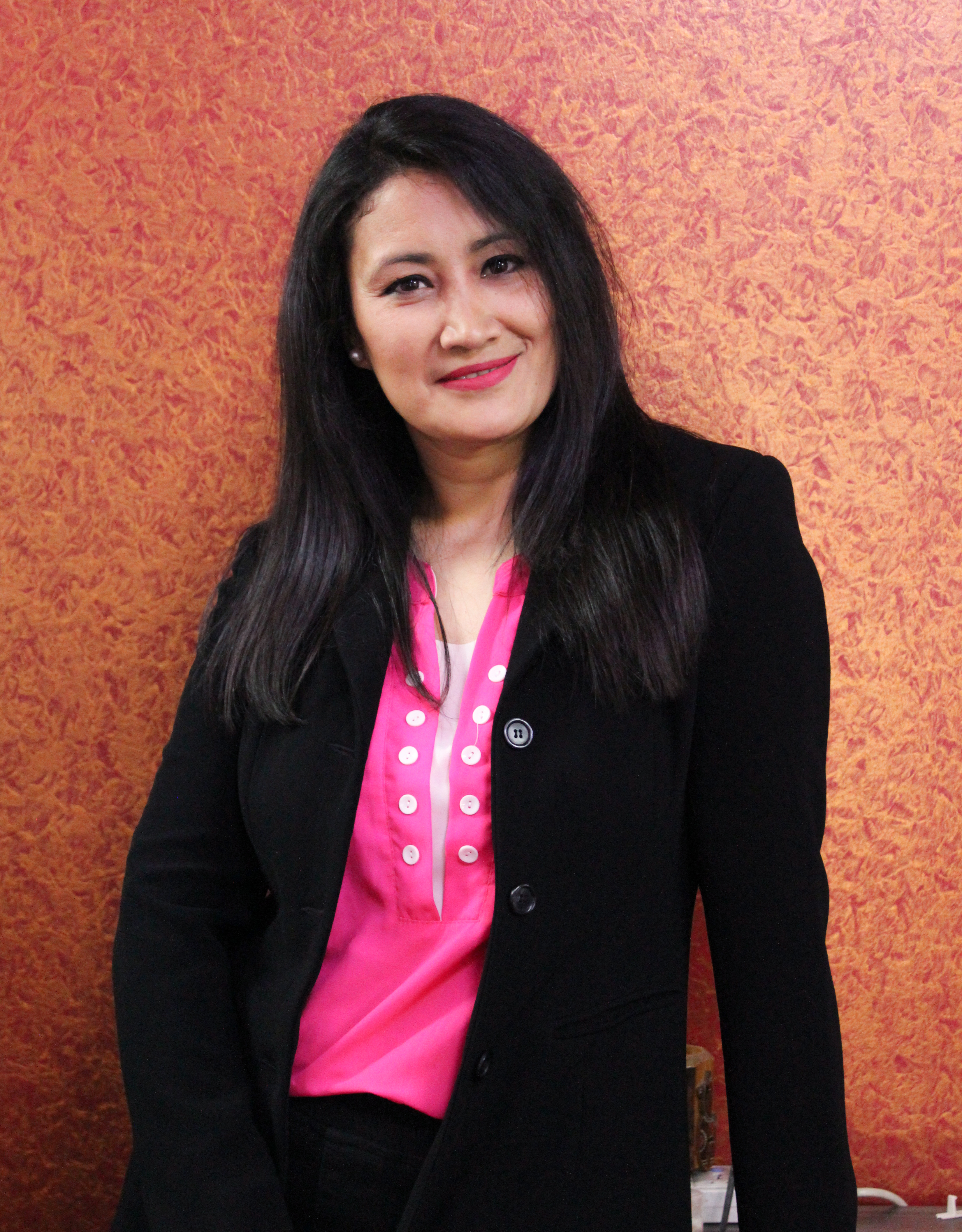 Sangita Shrestha (born 16 October 1976) is a Nepalese film director, screenwriter and media person.